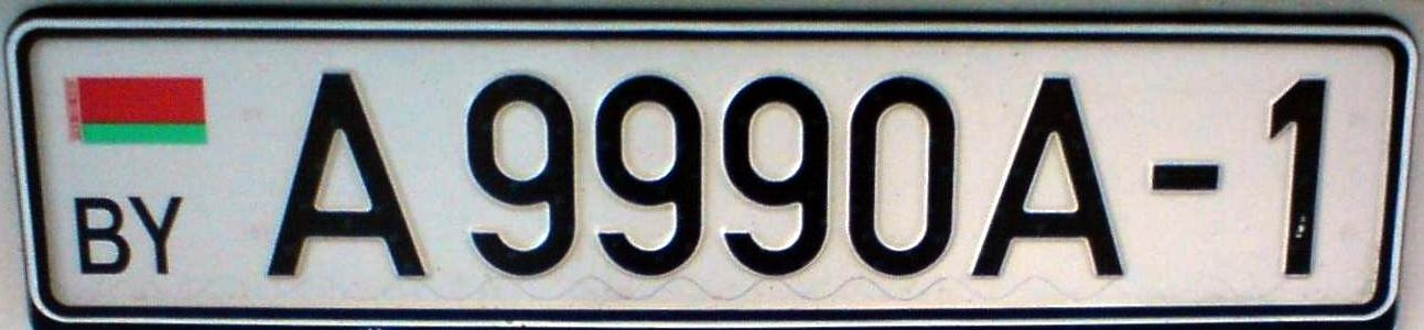 Plate-belarus-trailer-A9990A1